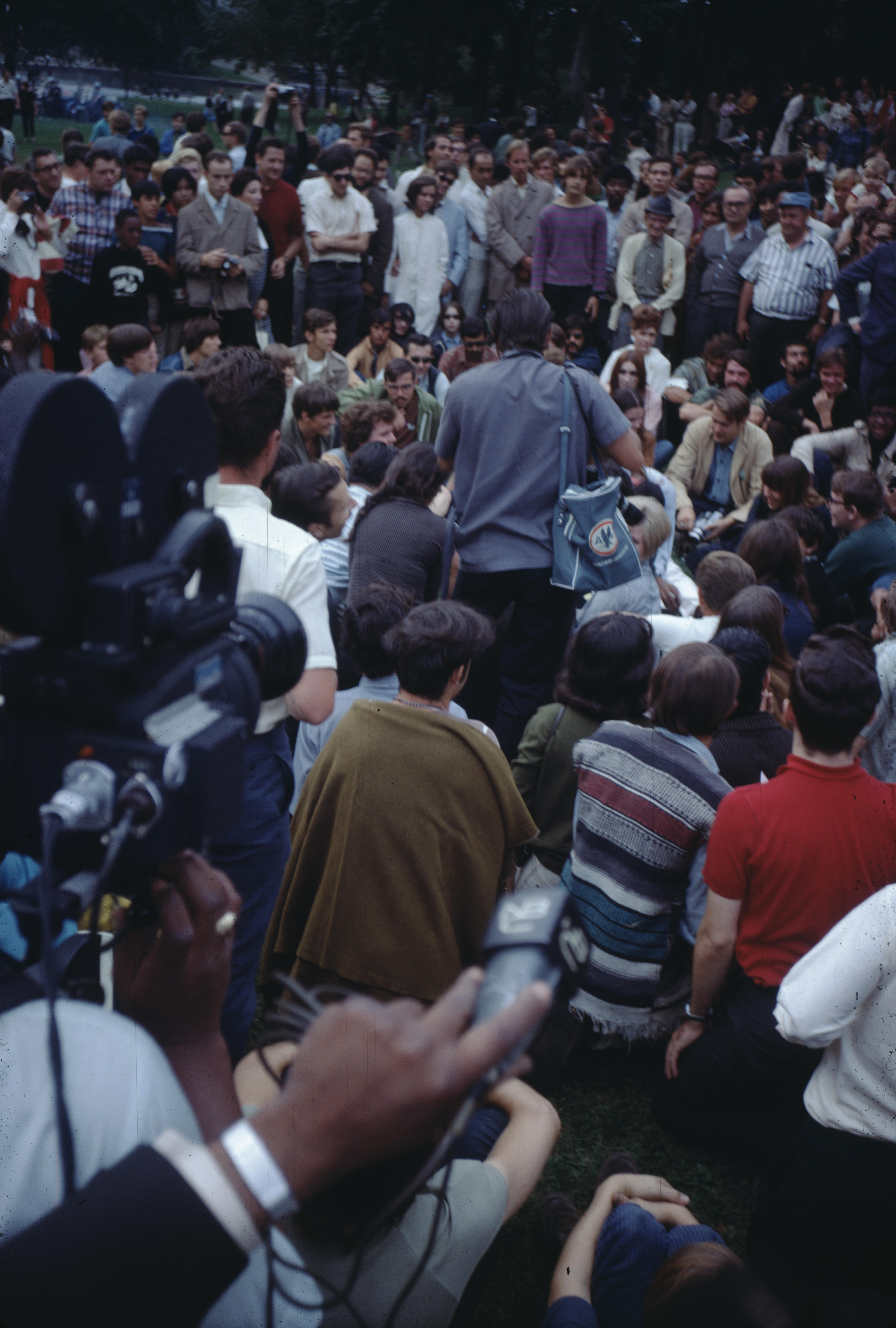 CyberViewX v5.16.55 Model Code=58 F/W Version=1.21 Photography by Victor Albert Grigas (1919-2017)